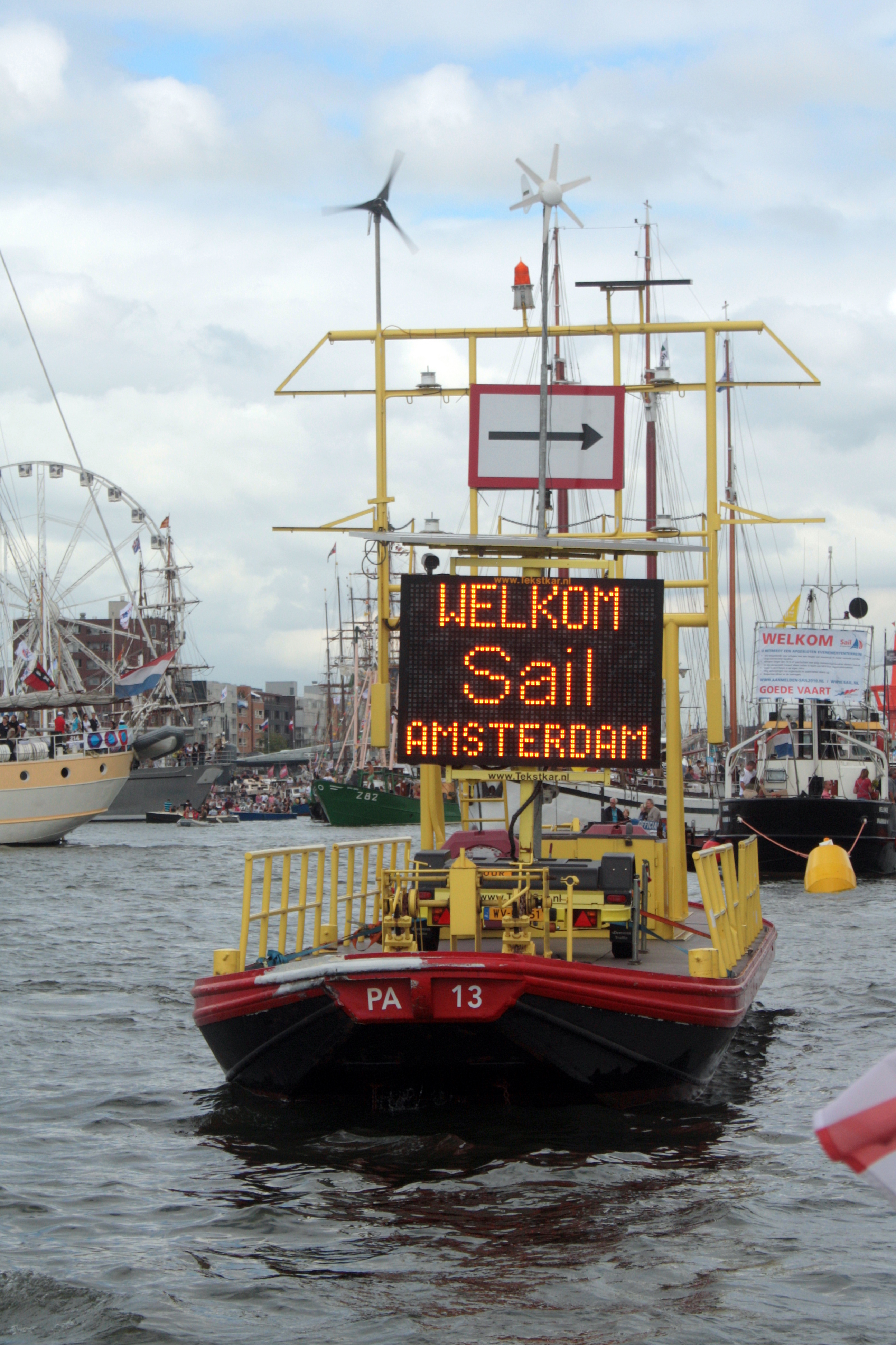 Buoy wuth welcome text for Amsterdam Sail 2010.